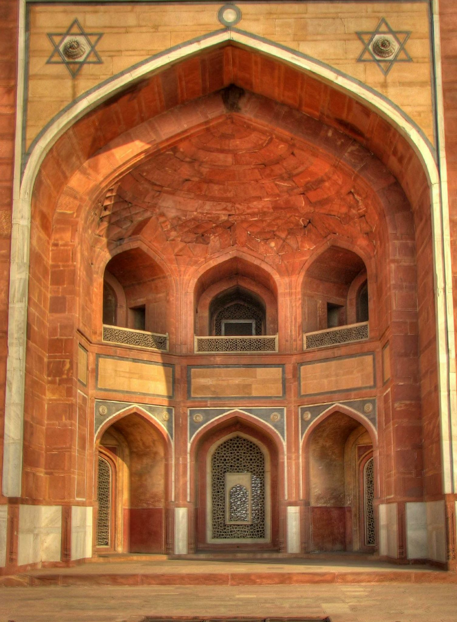 Details of the arch on the exterior of Humayun's Tomb, Delhi.